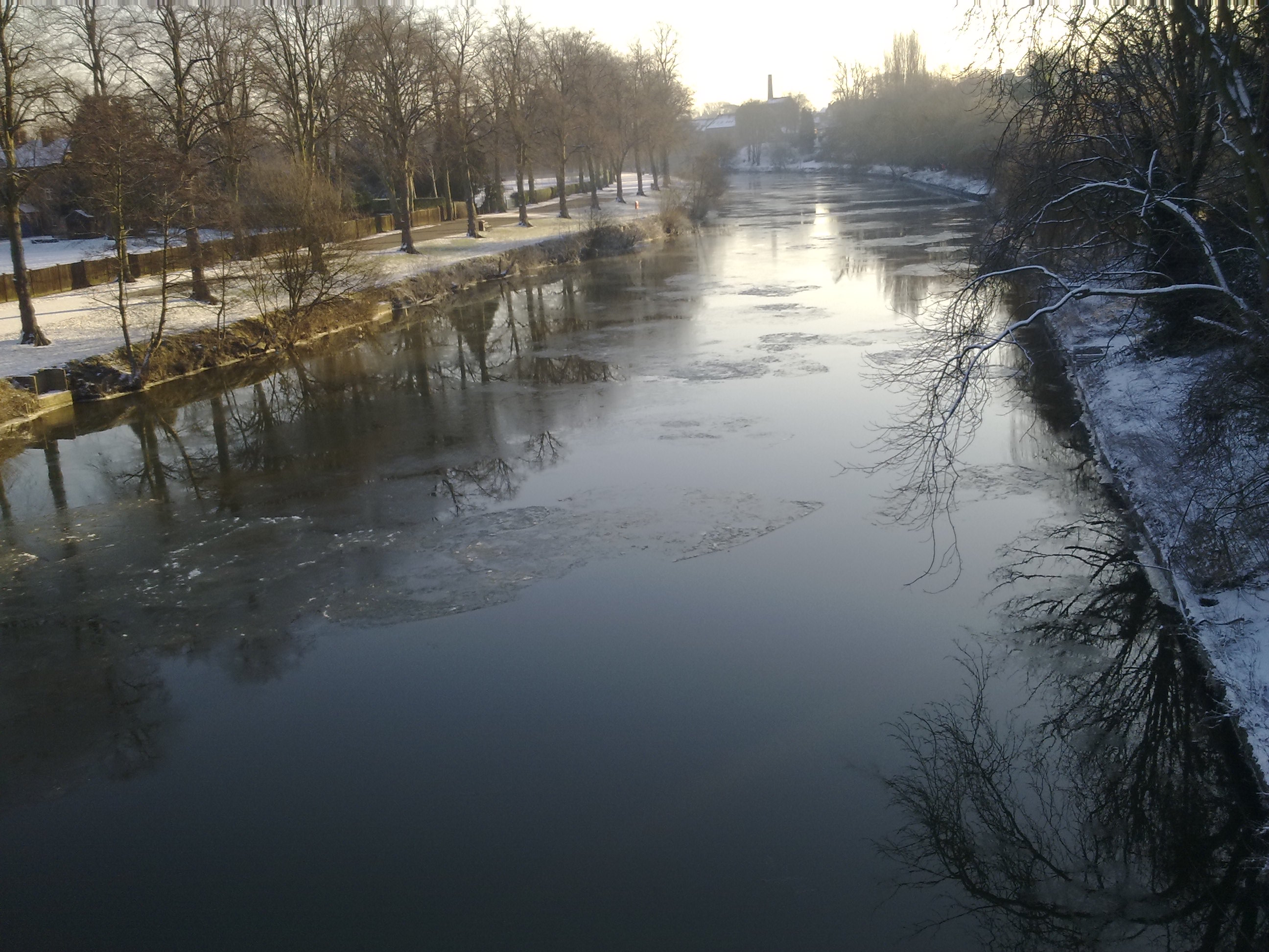 Ice on River Severn at Shrewsbury, England on 8th January 2010